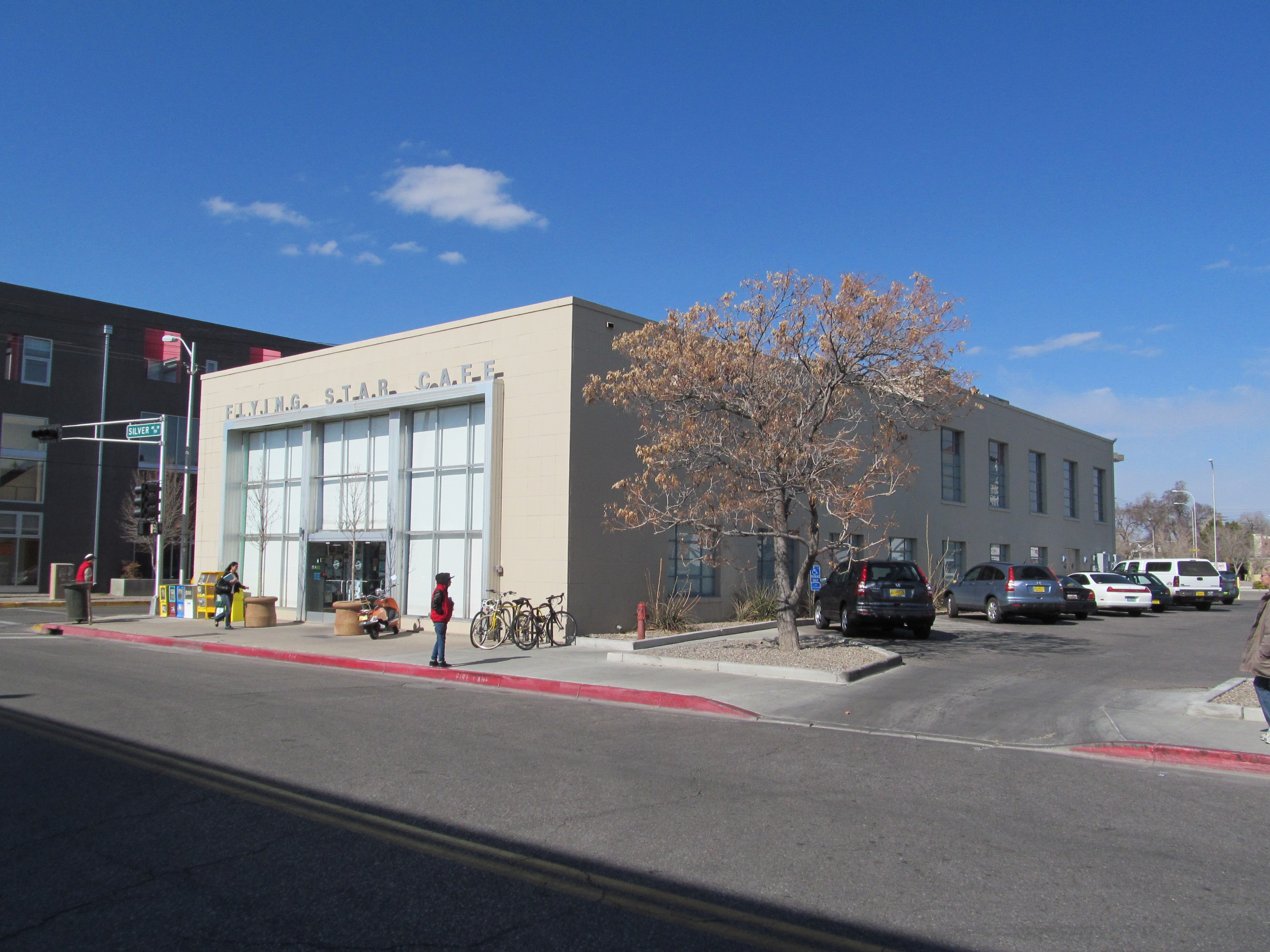 Southern Union Gas Company Building, Albuquerque New Mexico - then a Flying Star Restaurant